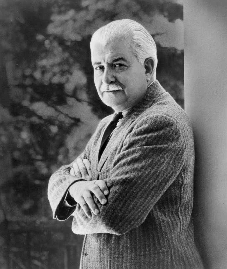 Photo of Arthur Fiedler.